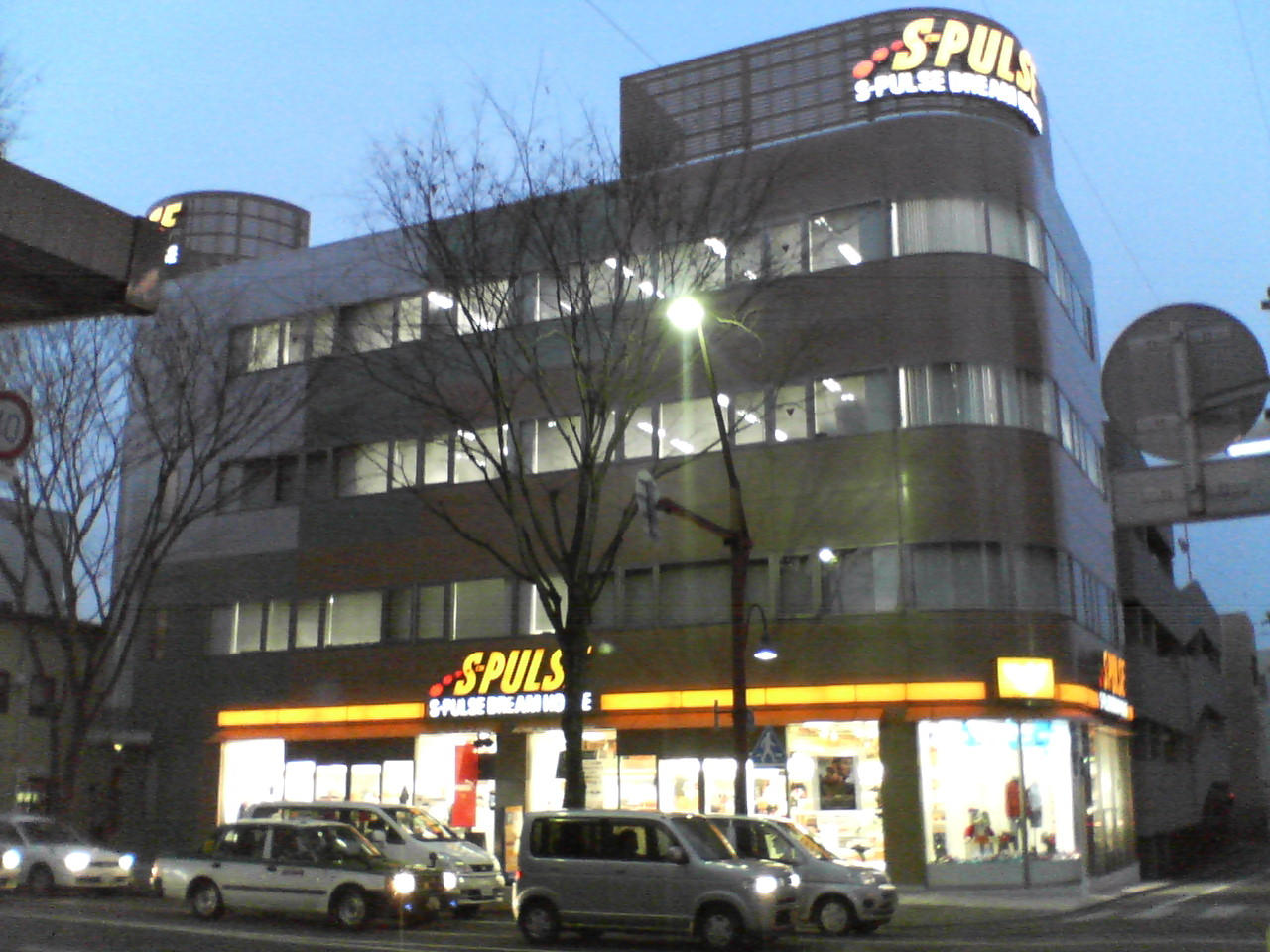 S-Pulse Dream House Shizuoka